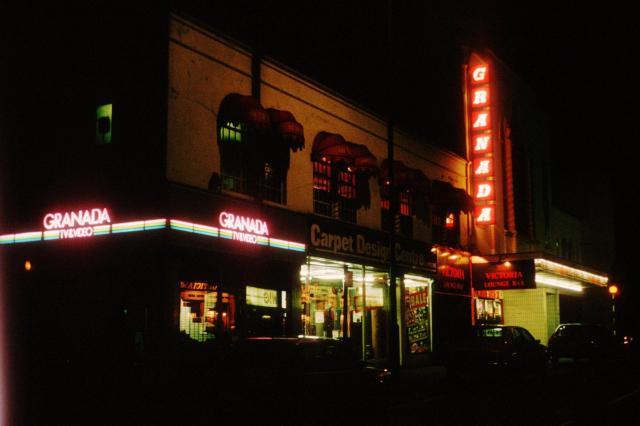 Granada Cinema, Walthamstow, in 1989 The photo was taken shortly before the cinema became part of the Cannon chain. It later became MGM, then ABC, and finally EMD before closing in January 2003, following the purchase of the building by the Universal Church of the Kingdom of God. The building remains closed because planning permission to convert the building into a place of worship was refused. It houses the sole remaining original in-theatre Christie cinema organ in the UK.